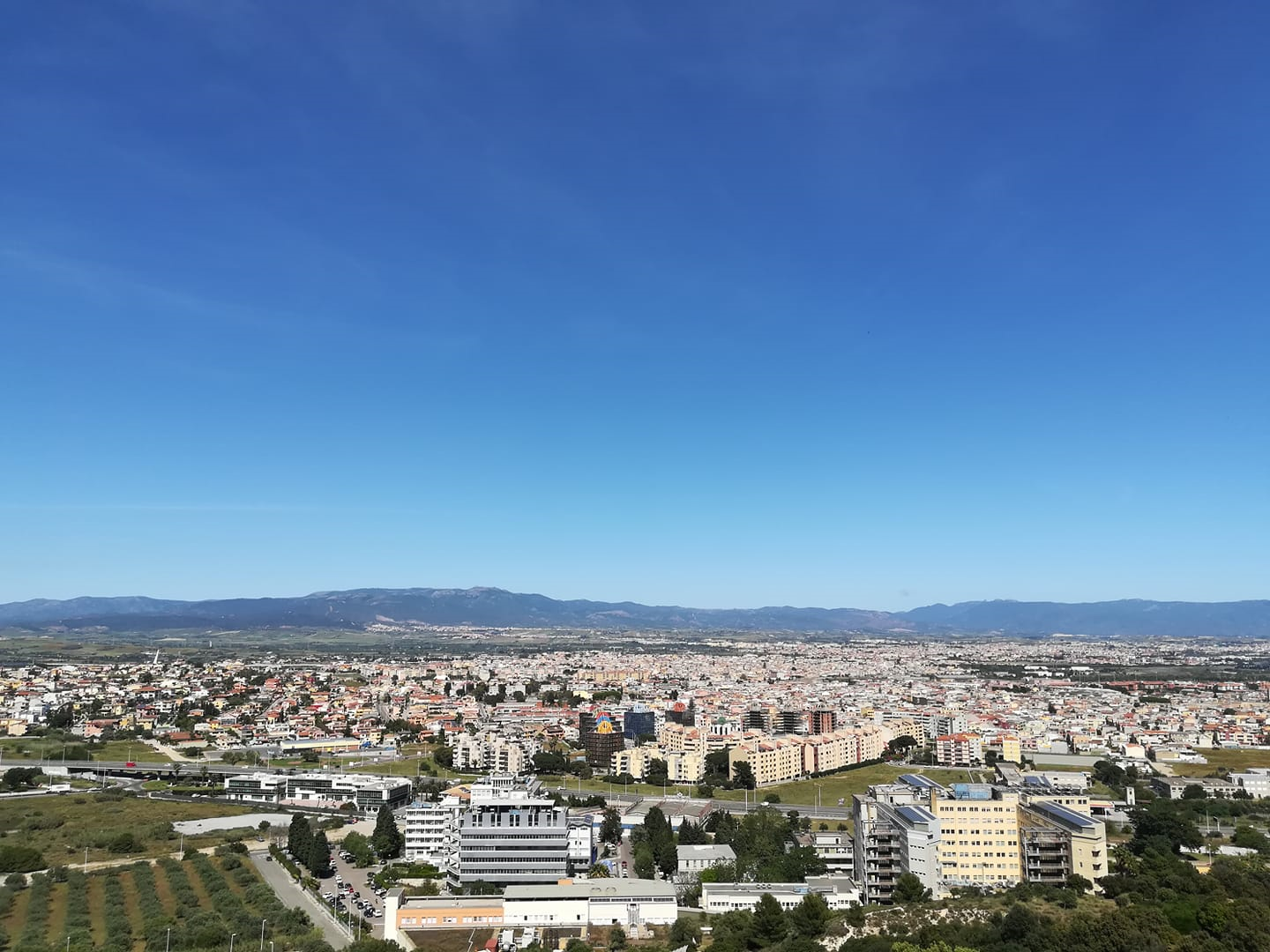 Pirri Municipality (Cagliari, Sardinia) seen by San Michele Castle